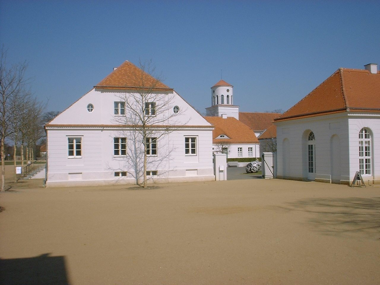 Buildings and church in Neuhardenberg in Brandenburg, Germany